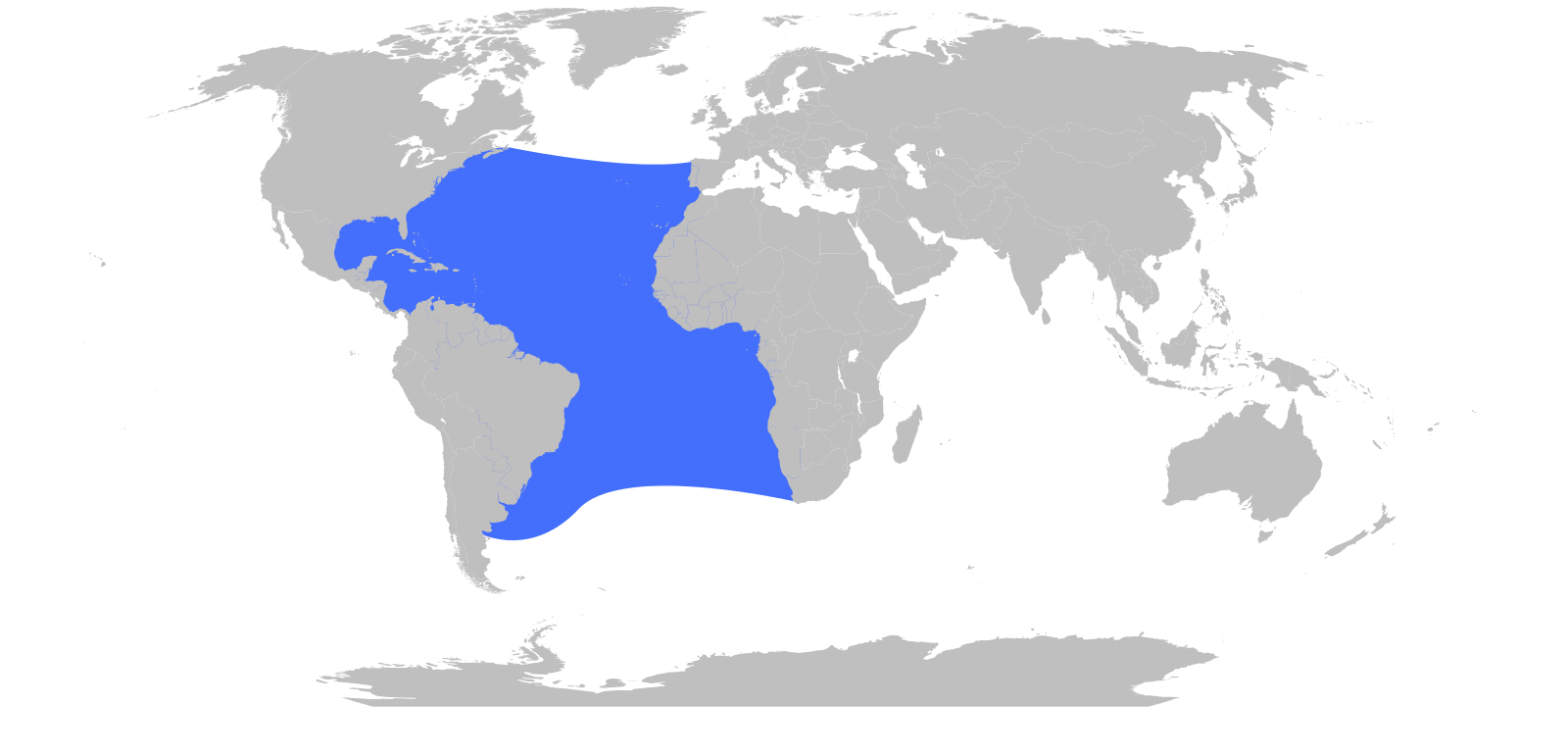 Atlantic Blue marlin distribution map